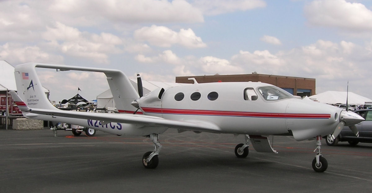 Adam Aircraft A500, Front Range Airport, Denver, Colorado